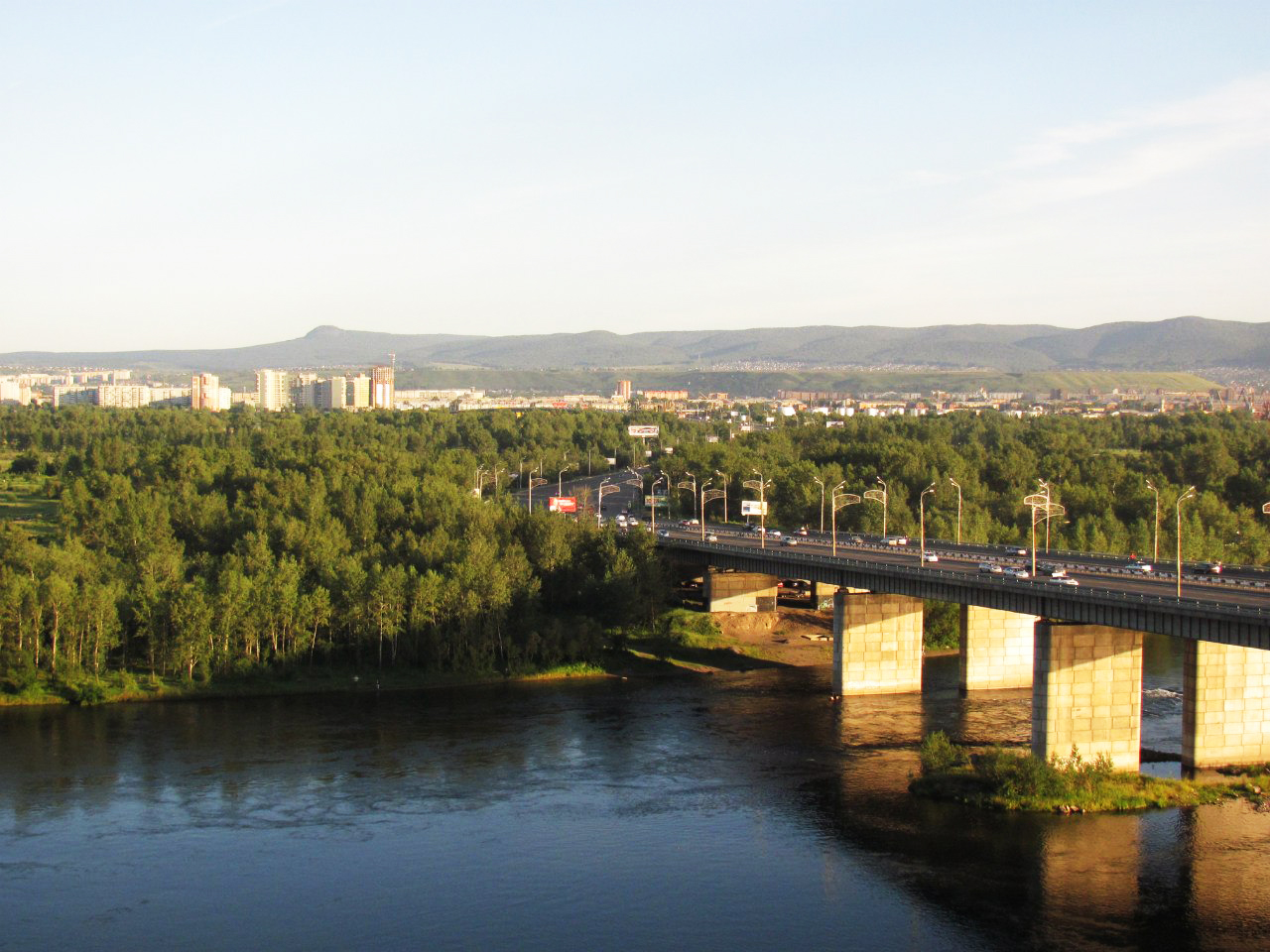 View Tatyshev island from the left bank